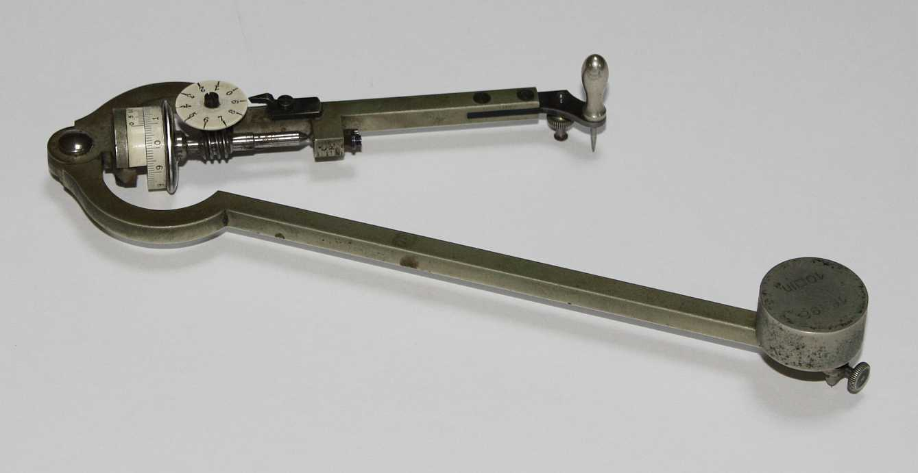 Amsler Polarplanimeter